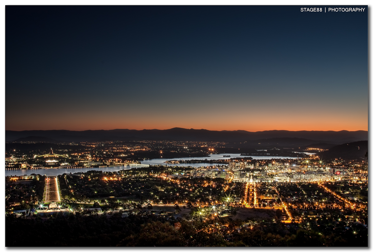 View of Canberra at night from the top of Mount Ainslie